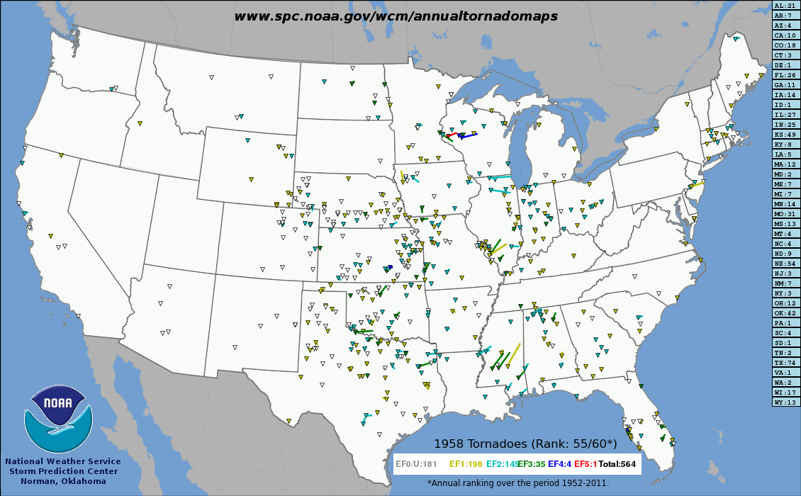 Track of every U.S. tornado from 1958.